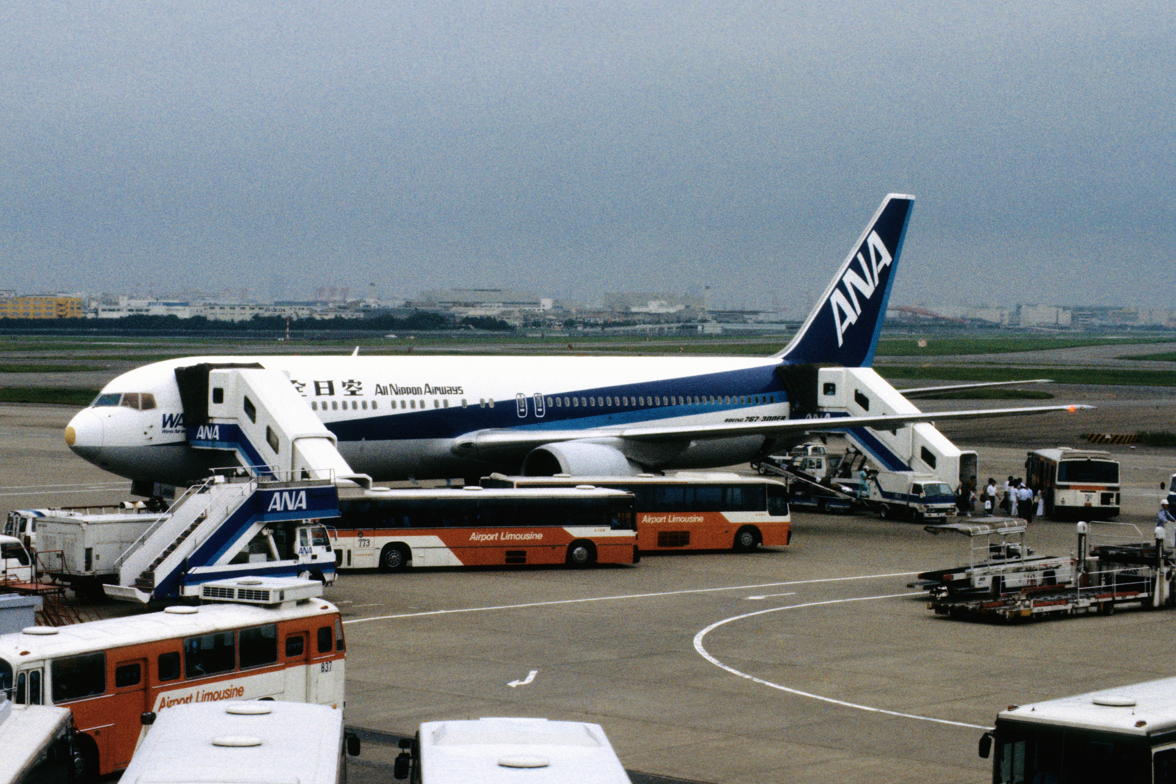 OLD Photo.